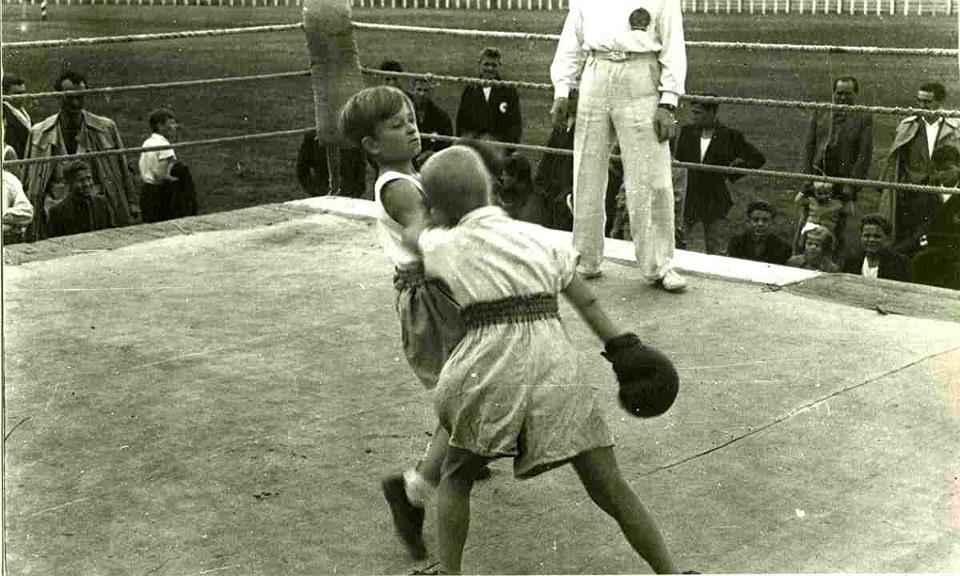 The stadium was host some boxing-matches in 50's and 60's